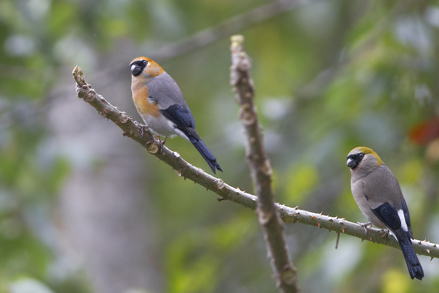 The species Red-headed Bullfinch had been photographed from Pangolakha Wildlife Sanctuary in East Sikkim, Sikkim, India on 05.04.2016.